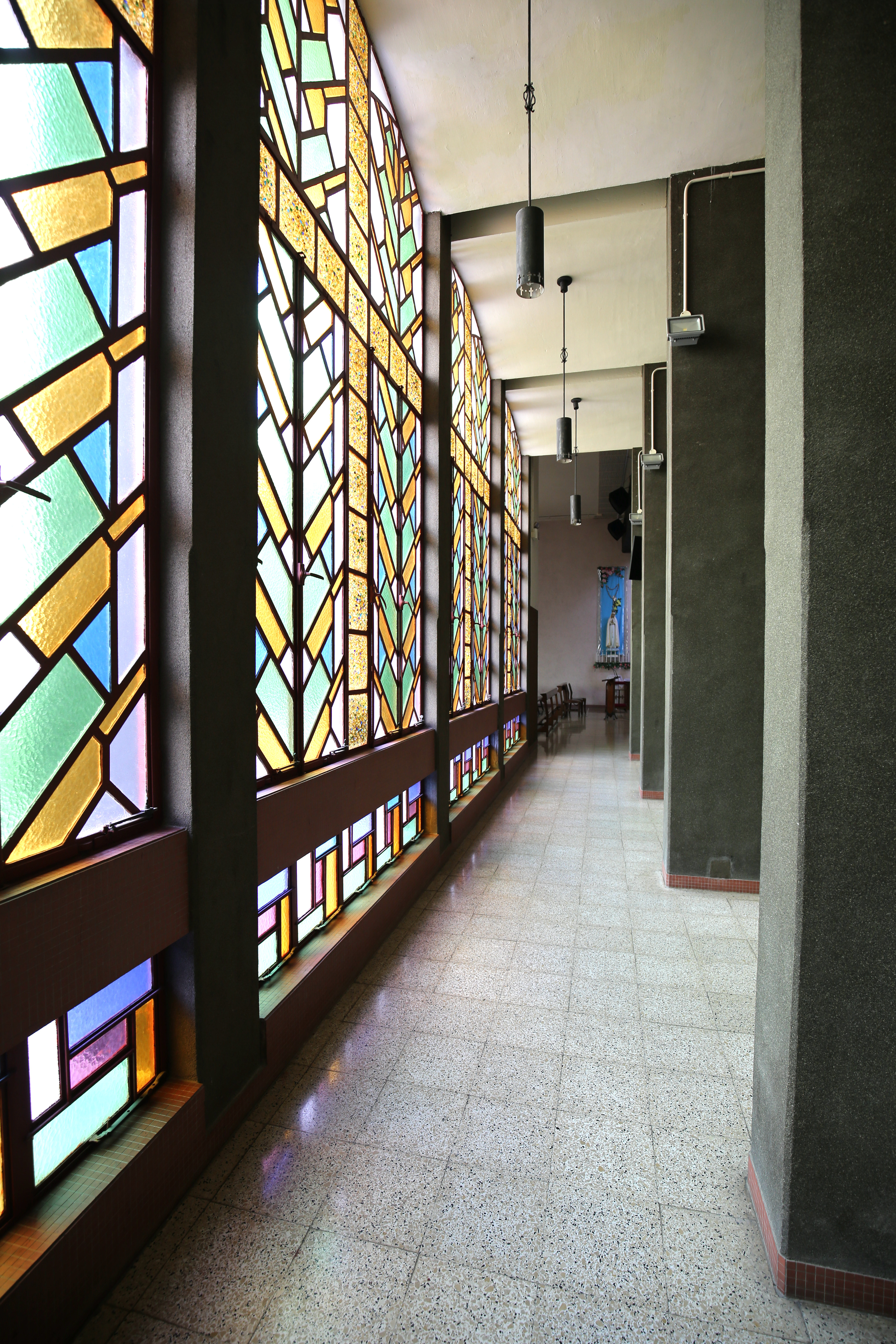 Fatima Church Macau